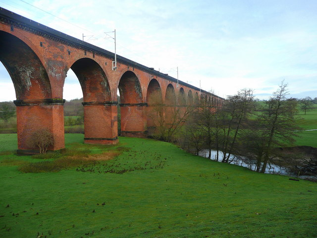 The Twemlow Viaduct 1 An impressive structure with 23 arches spanning the shallow Dane valley to the west of Holmes Chapel.